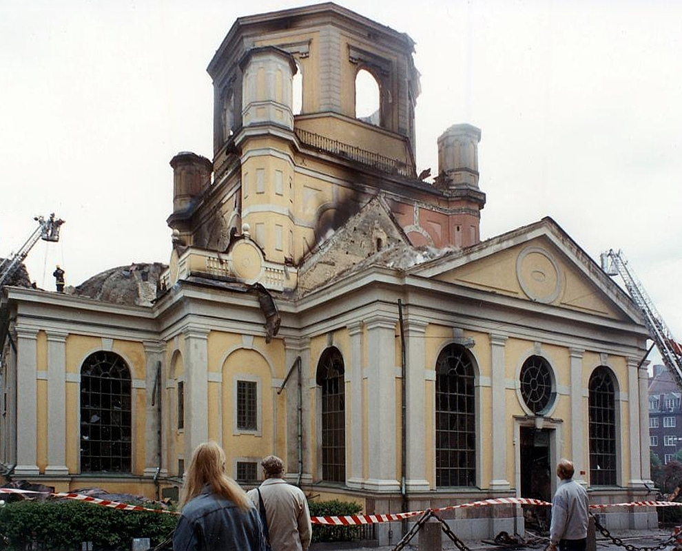 Day after Catherine's Church burned down in Stockholm, as released by image creator RistessonPlace: Katarina kyrka (Catherine's Church), Högbergsgatan 15, Stockholm, Sweden